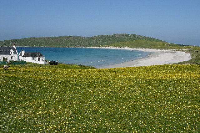 Traigh Bhi, Balephuil Bay, Isle of Tiree, The Hebrides. Looking West to Balephuil Bay, across the famous Hebridean Machair.